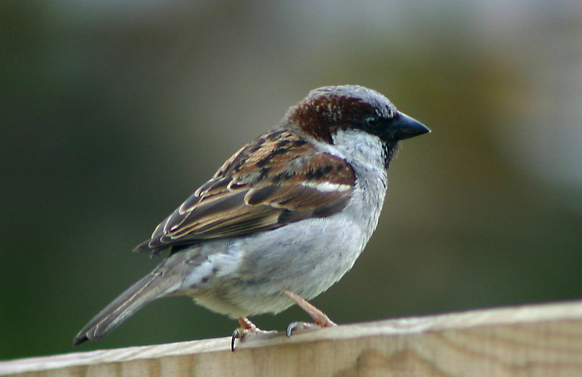 A male House Sparrow (Passer domesticus), in Denmark